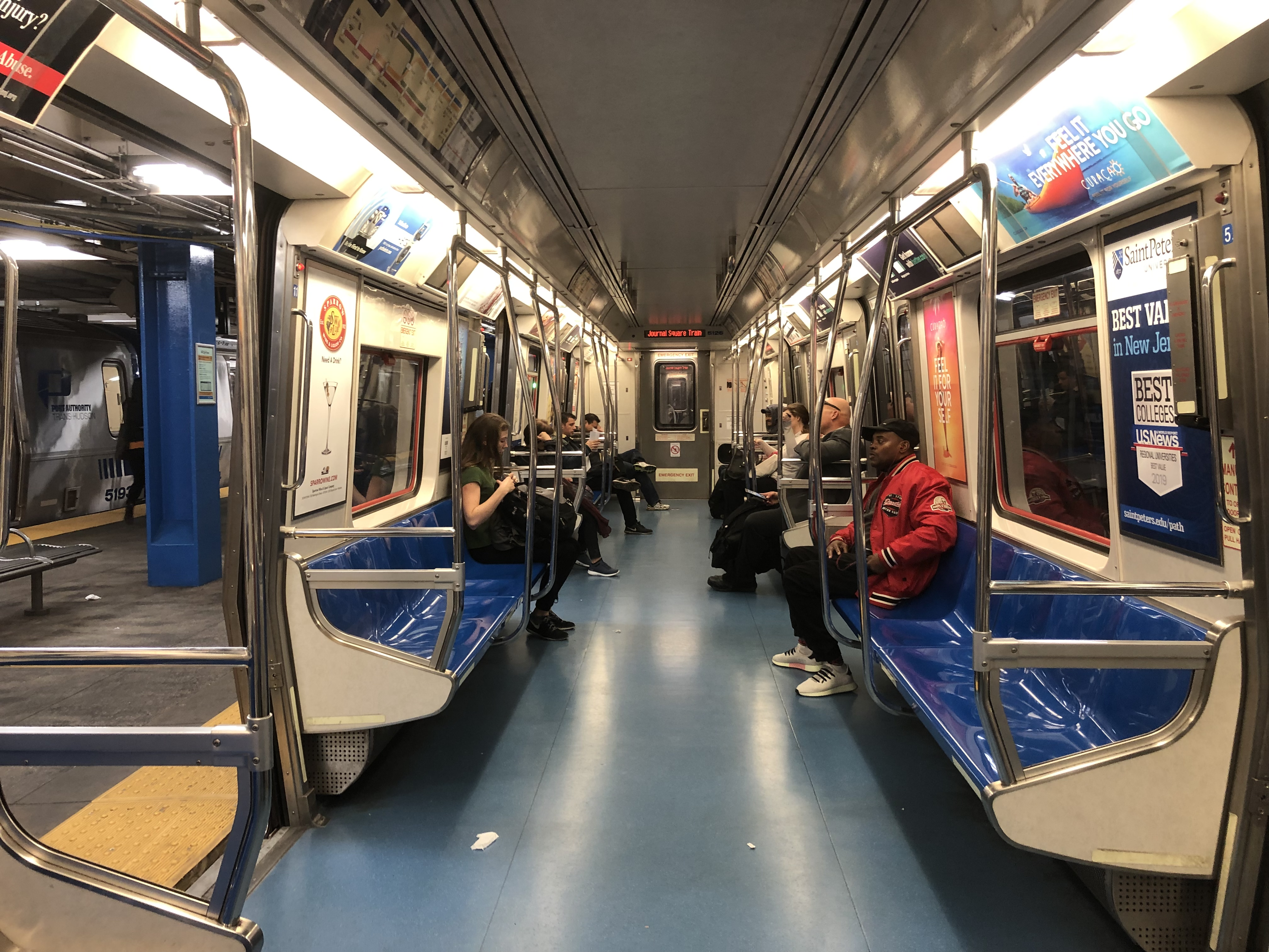 An interior view of PATH train car 5126, a PA5 built by Kawasaki between 2008 and 2012. Please be aware that unless you are brave enough to do so, DO NOT TAKE PICTURES OF PATH WITHOUT PROPER PERMISSION FROM THE PORT AUTHORITY OF NEW YORK AND NEW JERSEY.